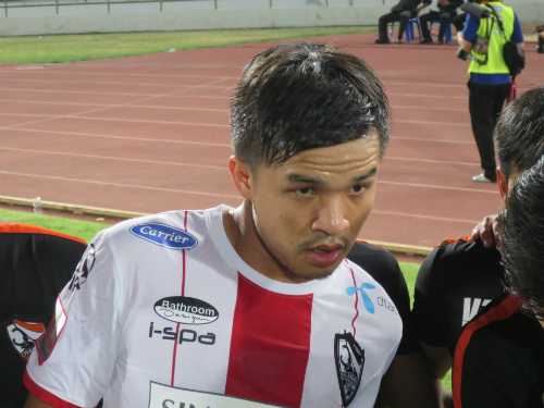 Arthit Sunthornpit